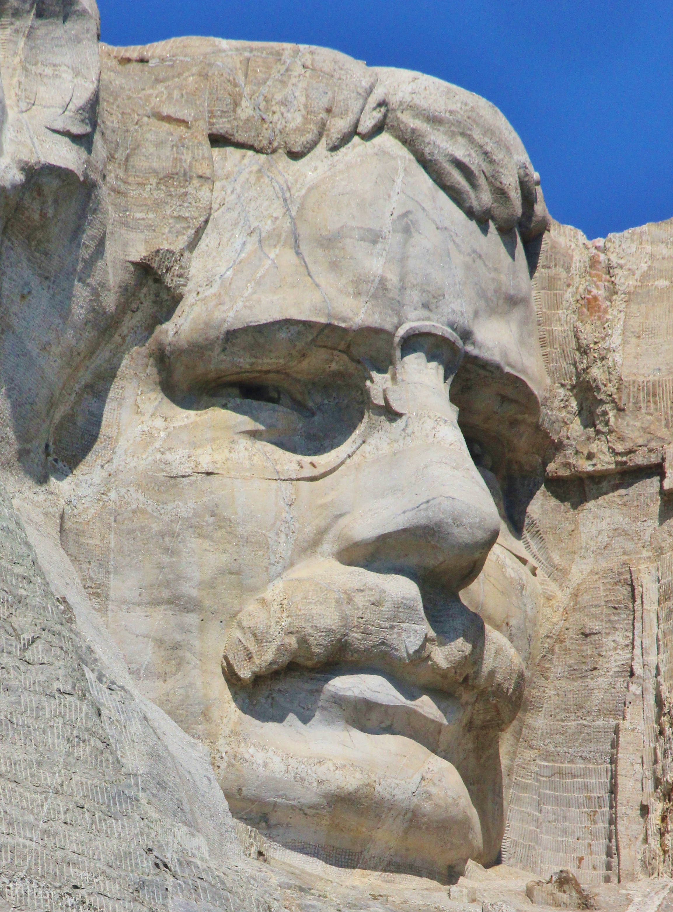 Mount Rushmore National Memorial, 3 miles west of Keystone off U.S. Route 16A Keystone